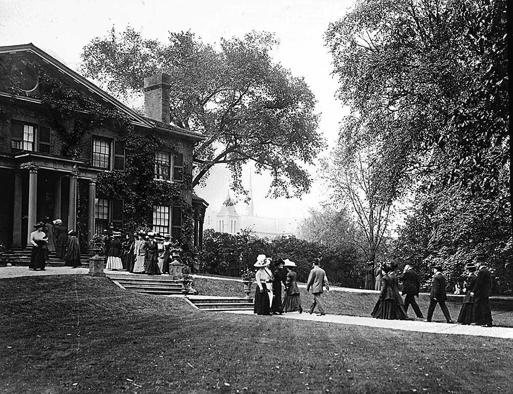 Visitors at the Grange, possibly to see the body of Professor Goldwin Smith, the last occupant of the manor before it was transferred to the Art Museum of Toronto (later the Art Gallery of Ontario).